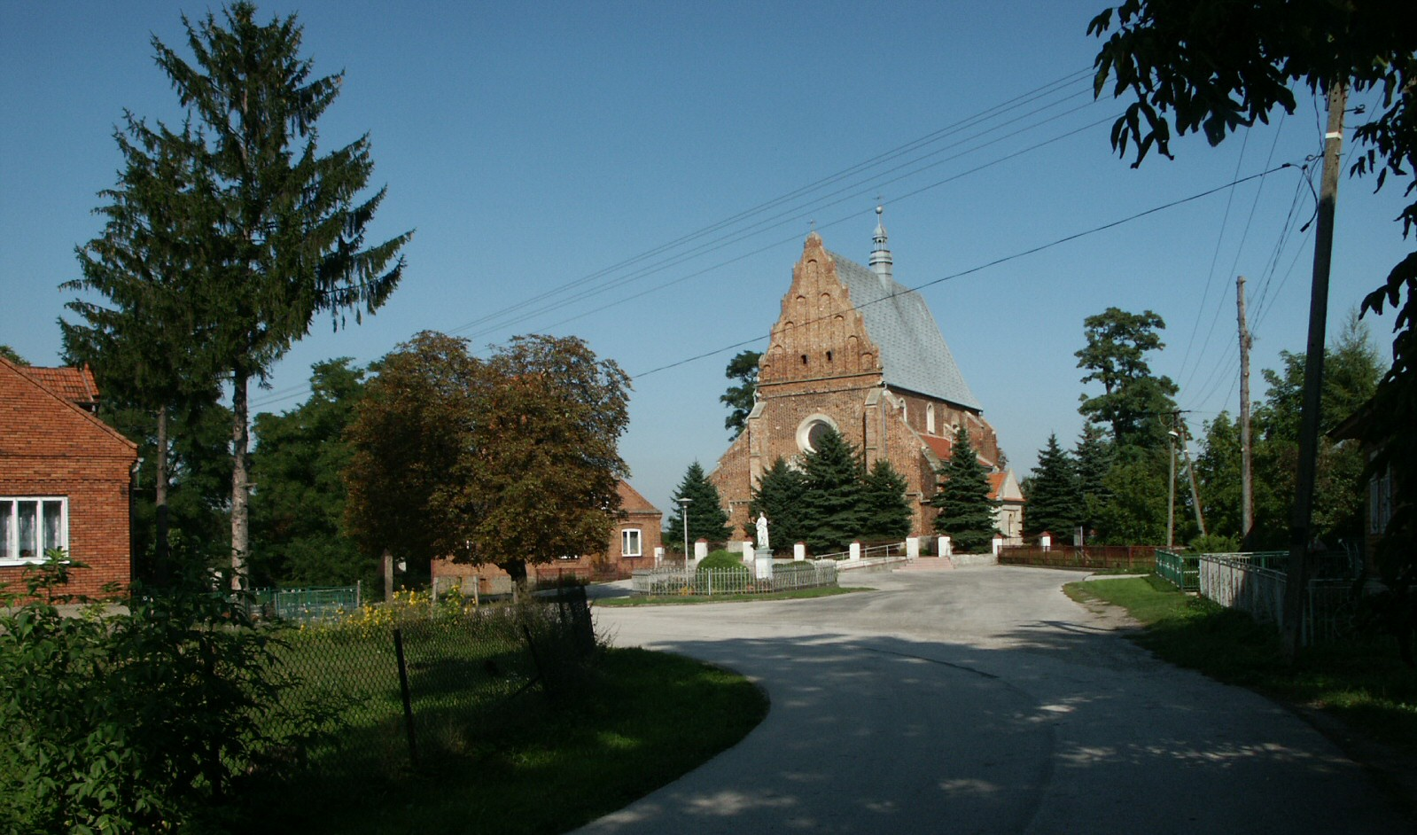 15th-century church in Przemyków village, Poland. rebuilt in 16th and 17th centuries.